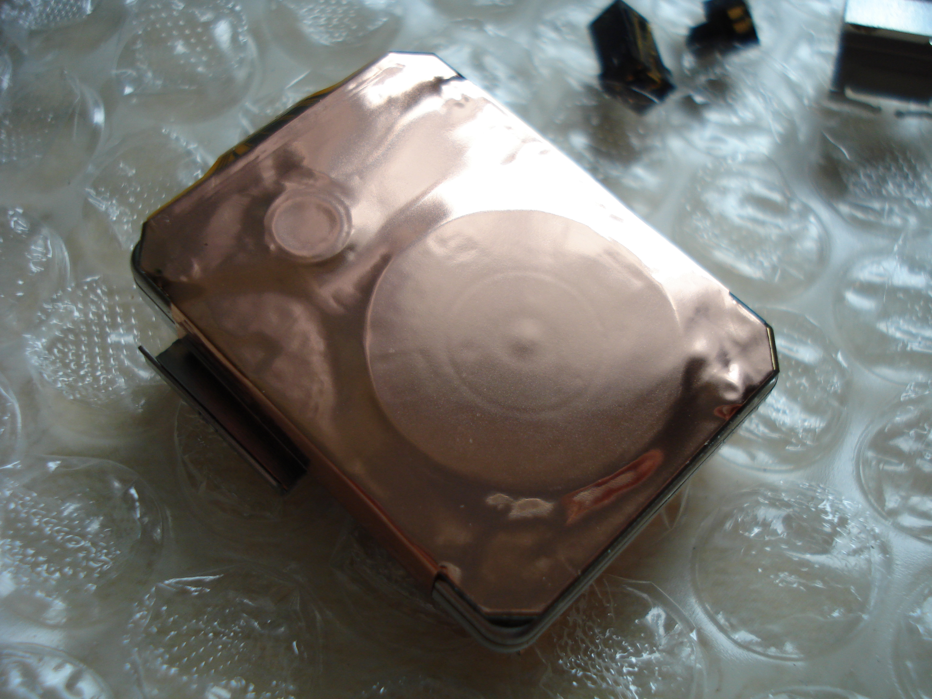 HDD from Nokia N91